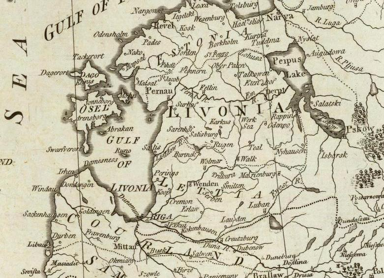 Part of "A new map of the Northern States containing the Kingdoms of Sweden, Denmark, and Norway" showing Baltic Noble corporations